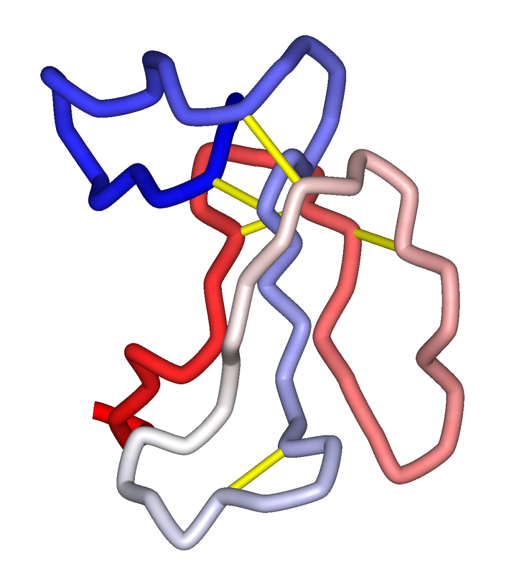 Schematic representation of the three-dimensional structure of α-bungarotoxin, colored from N-terminal end (blue) to C-terminal end (red). Disulfide bonds are shown in gold. Created using Accelrys DS Visualizer Pro 1.6 and GIMP. Legend Disulfide bonds